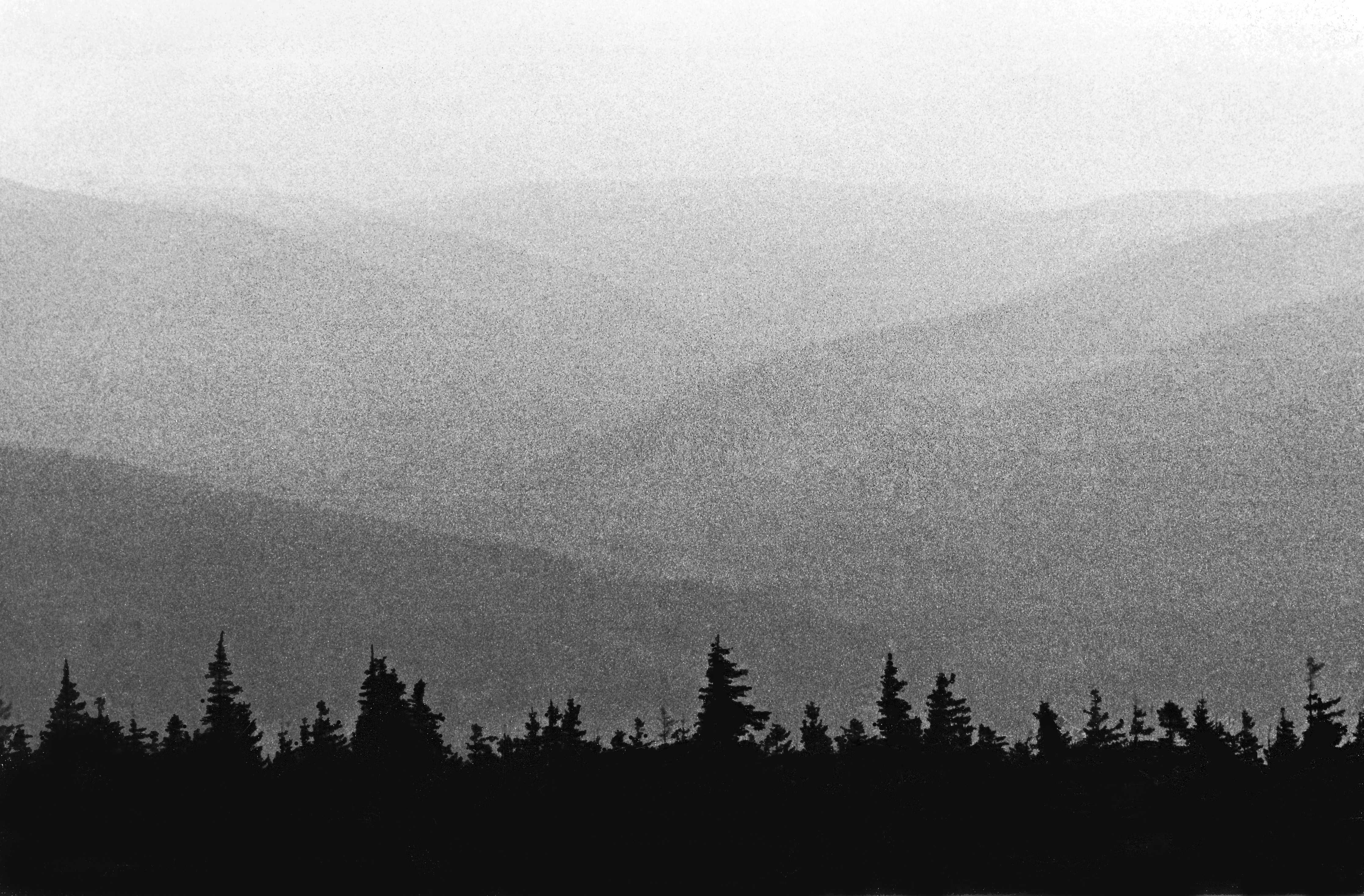 Góry Bialskie, view from Kowadło